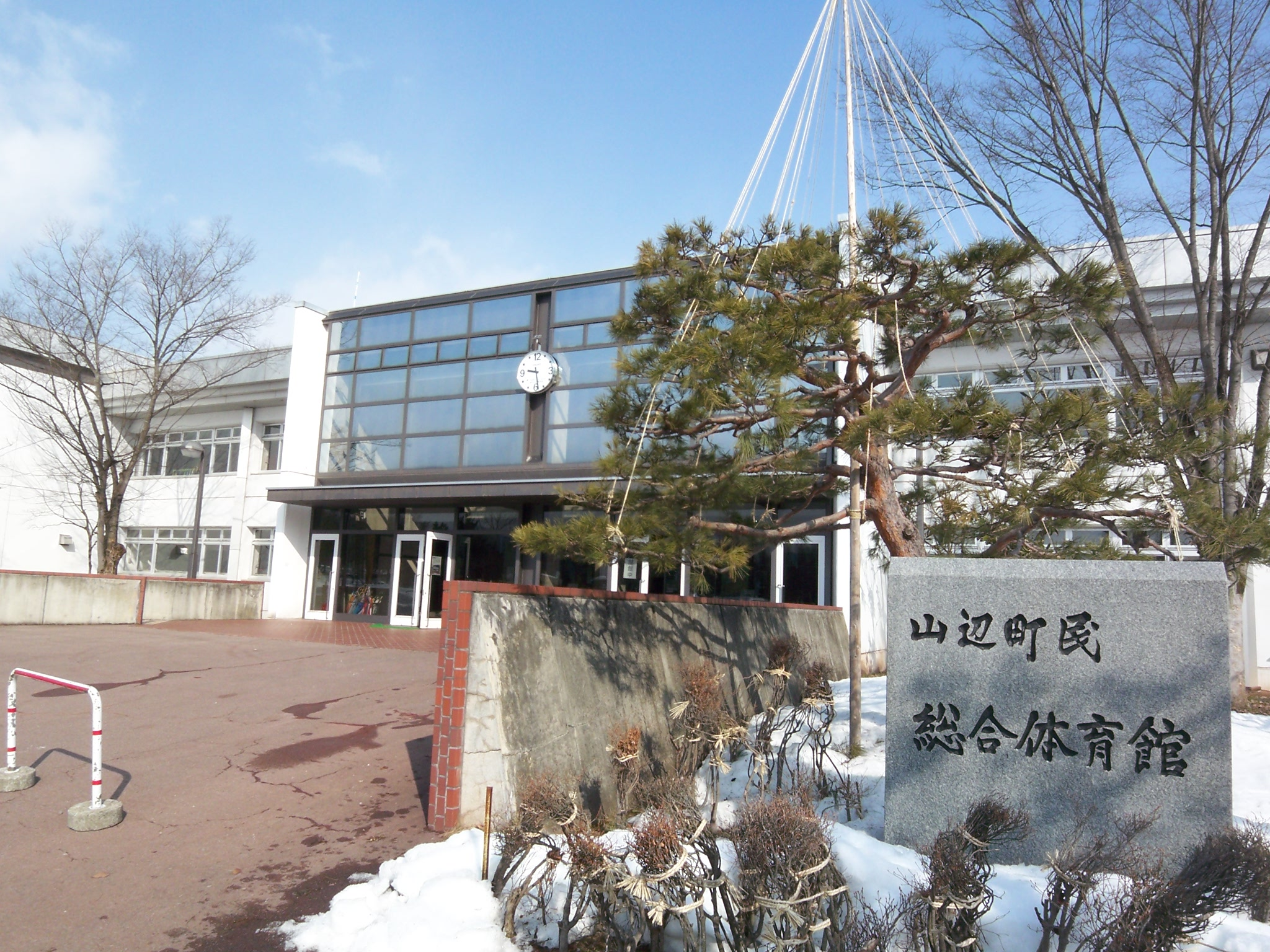 Yamanobe Townsman General Gymnasium in Yamanobe No Sato Sports Club in Yamanobe, Yamagata, Japan.